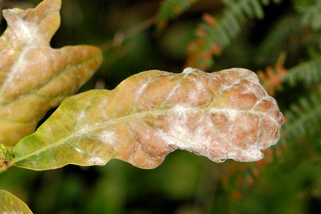 Microsphaera alphitoides from Commanster, Belgium. If you think this is a different taxon, please contact James Lindsey.